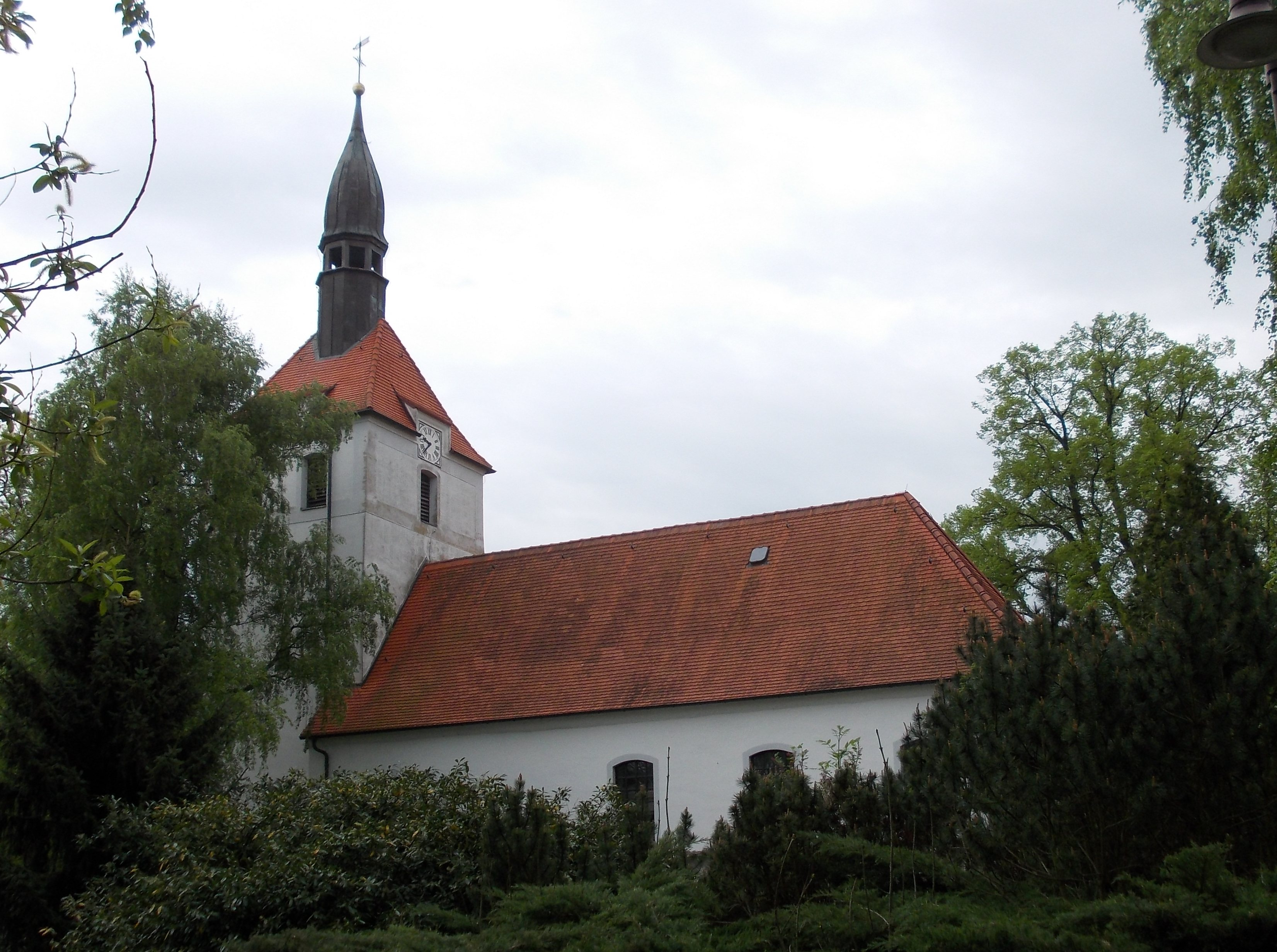 Köhra church (Belgershain, Leipzig district, Saxony)